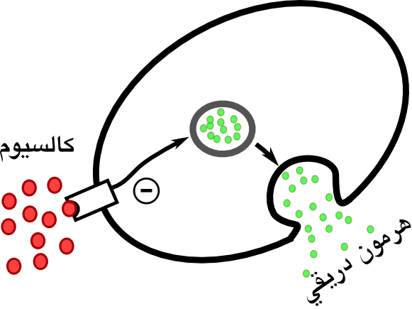 picture showing how increase serum calcium levels causes decrease in PTH secretion